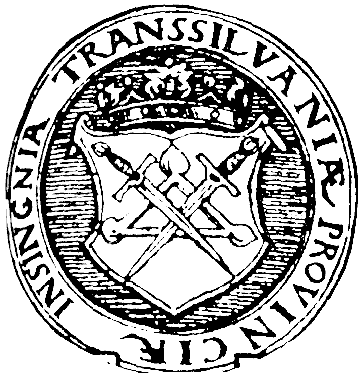 Transilvanian Seal, as shown in an austrian heraldry album from 1550